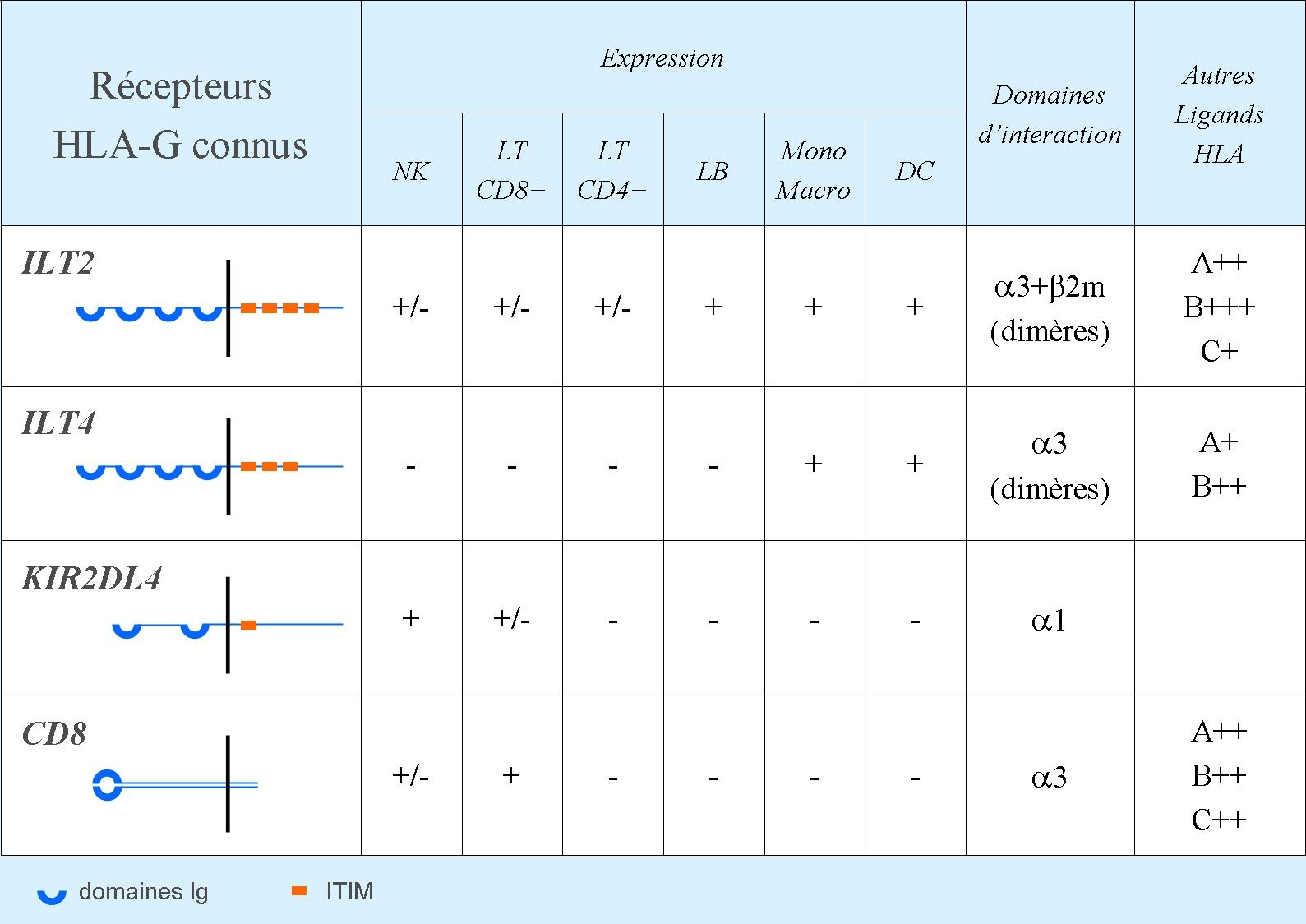 HLA-G receptors known to date